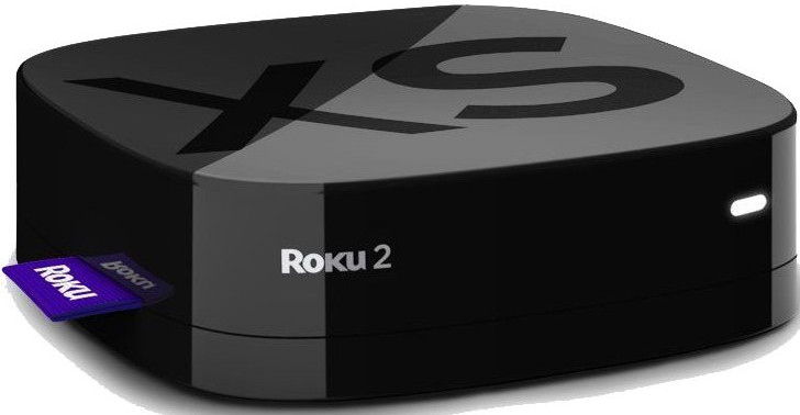 "Roku 2 set top box